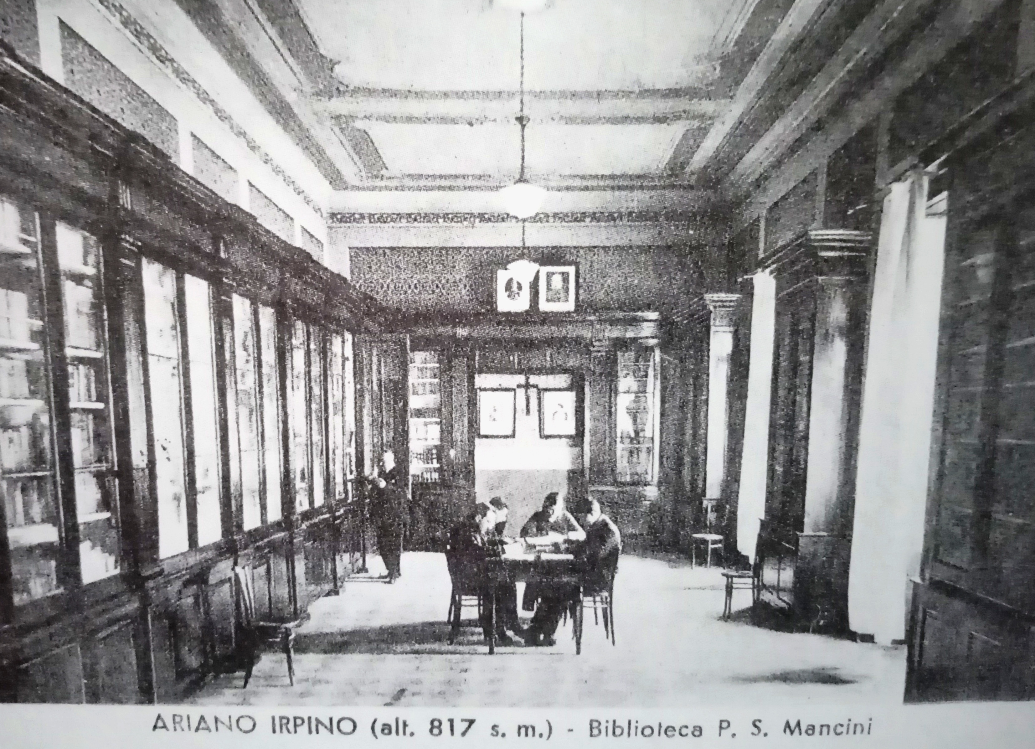 "Pasquale Stanislao Mancini" library in Ariano Irpino, Italy